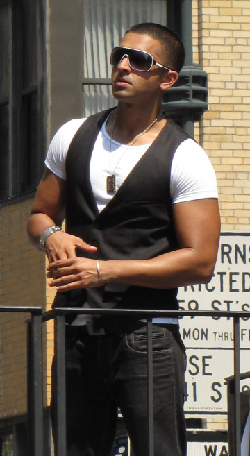 British recording artist Jay Sean on a float during the 2009 India Day Parade in New York.